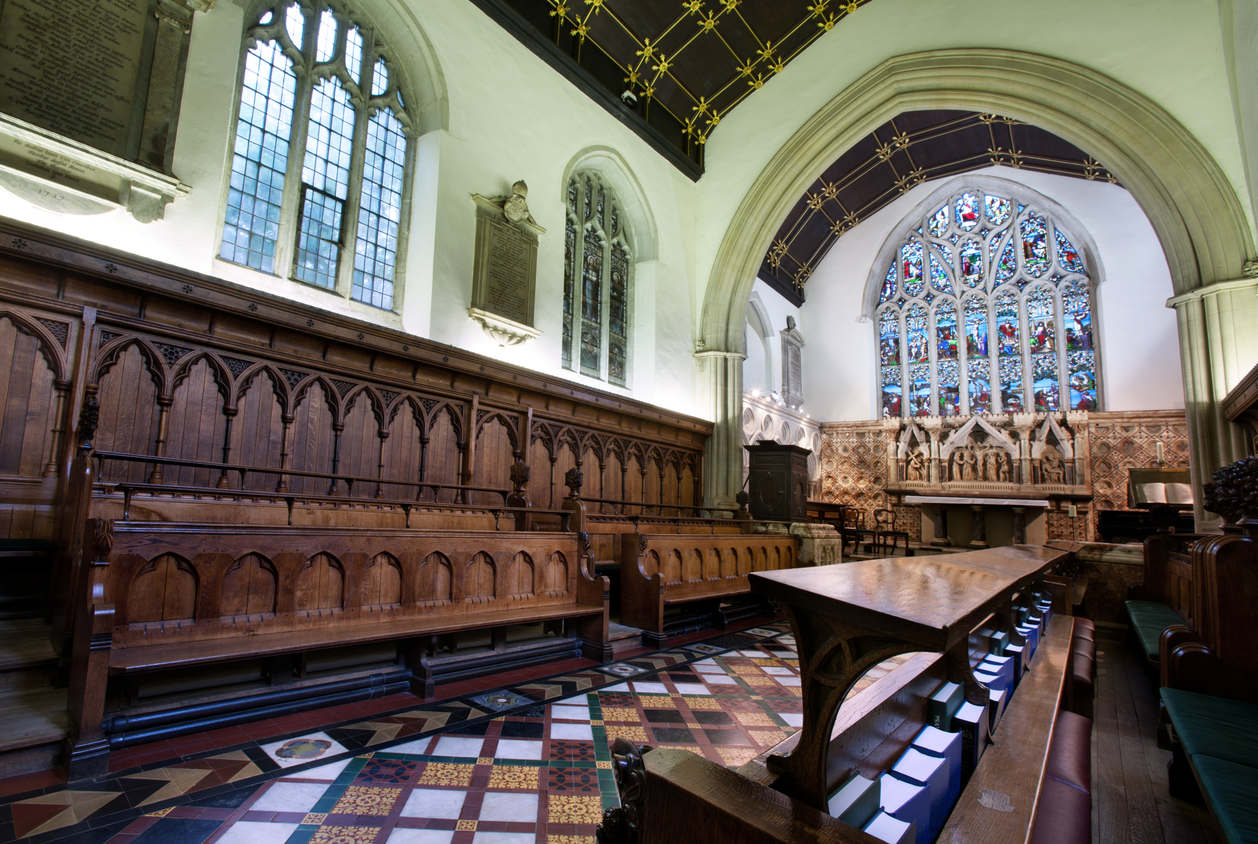 Jesus College, Chapel. Oxford. UK.